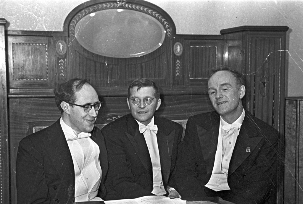 “Mstislav Rostropovich, Dmitry Shostakovich and Svyatoslav Richter”. From left: Mstislav Rostropovich, Dmitry Shostakovich and Svyatoslav Richter, People's Artists of the USSR.